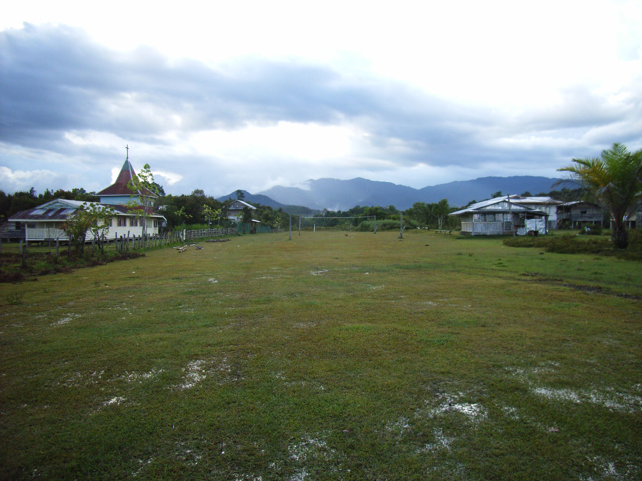 View of Pa' Umor, near Bario Sarawak